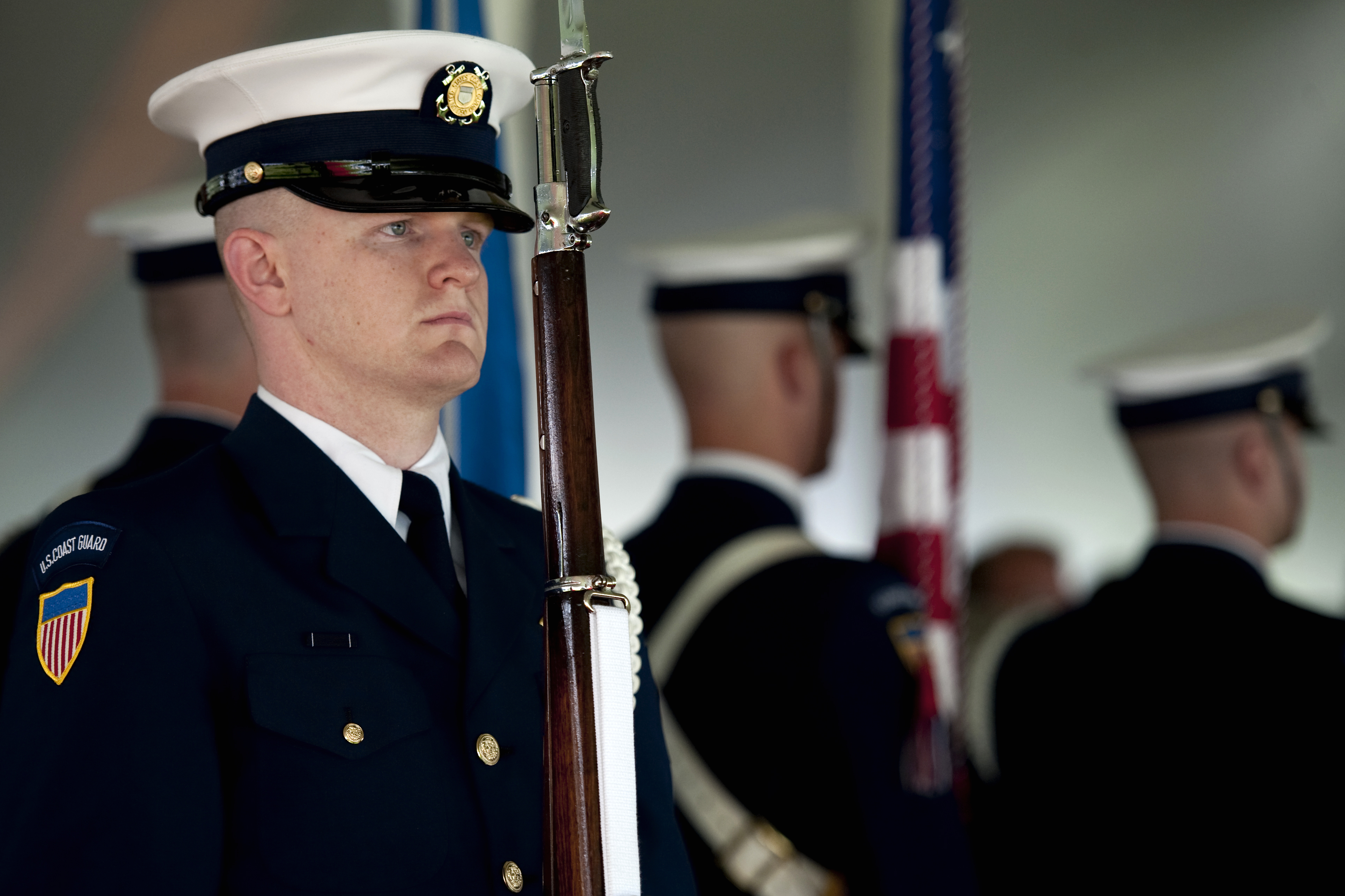 Members of the U.S. Coast Guard Honor Guard present the colors at the U.S. Coast Guard Change of Command Ceremony for Adm. Thad Allen on Fort Lesley J. McNair in Washington, D.C., May 25, 2010.